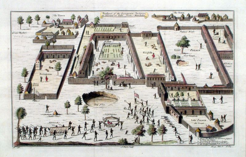 Prospect of the European Factorys at Xavier or Sabi